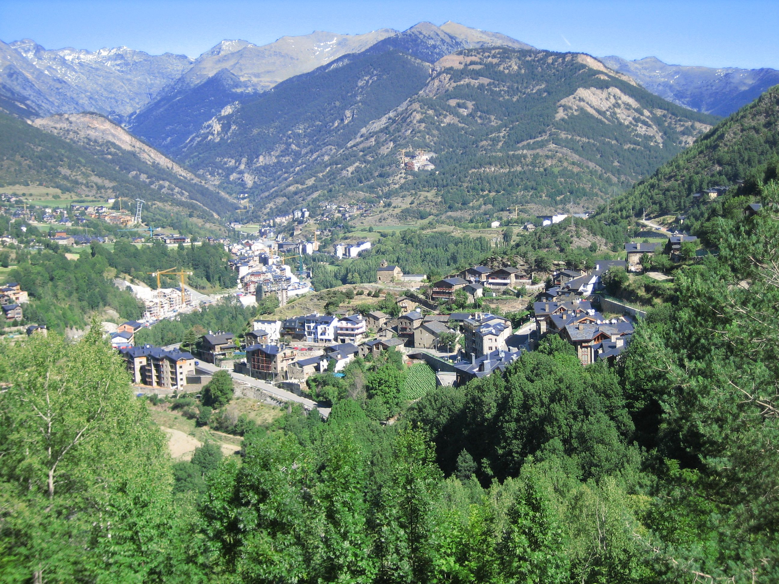 View of Anyós, La Massana, Andorra